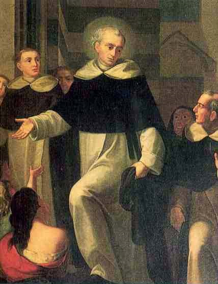 Depiction of Sebastian Maggi, cropped from Francesco Zignago, Il Beato Sebastiano Maggi, Santa Maria di Castello (Genoa)